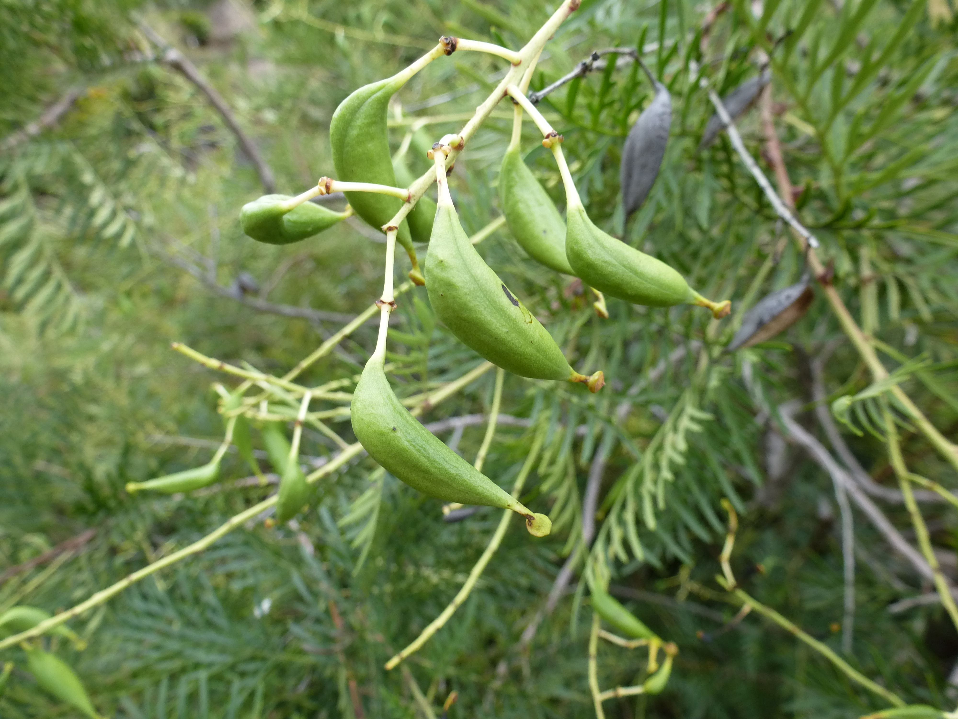 Lomatia tinctoria fruit in ANBG (6 January 2015)